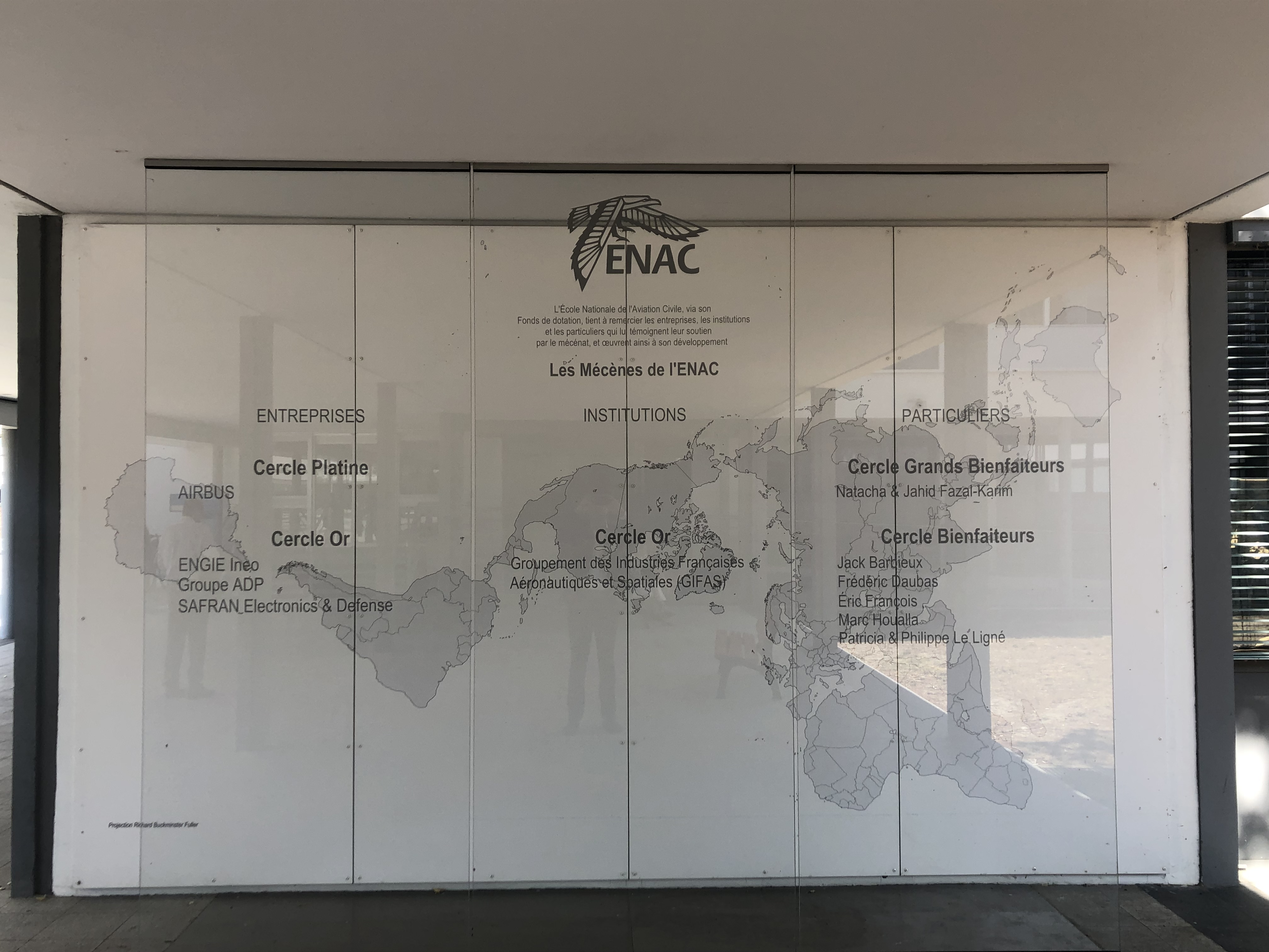 ENAC (French Civil Aviation University) Foundation Donors wall